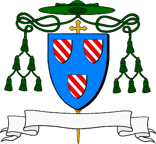 D'azur à trois écussons d'argent chargé chacun de trois bandes de gueules